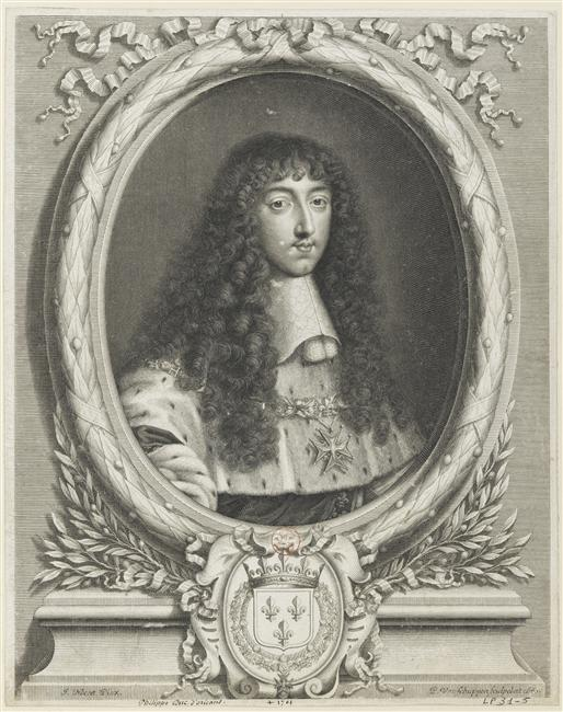 Portrait of Philippe de France (1640-1701) while Duke of Anjou